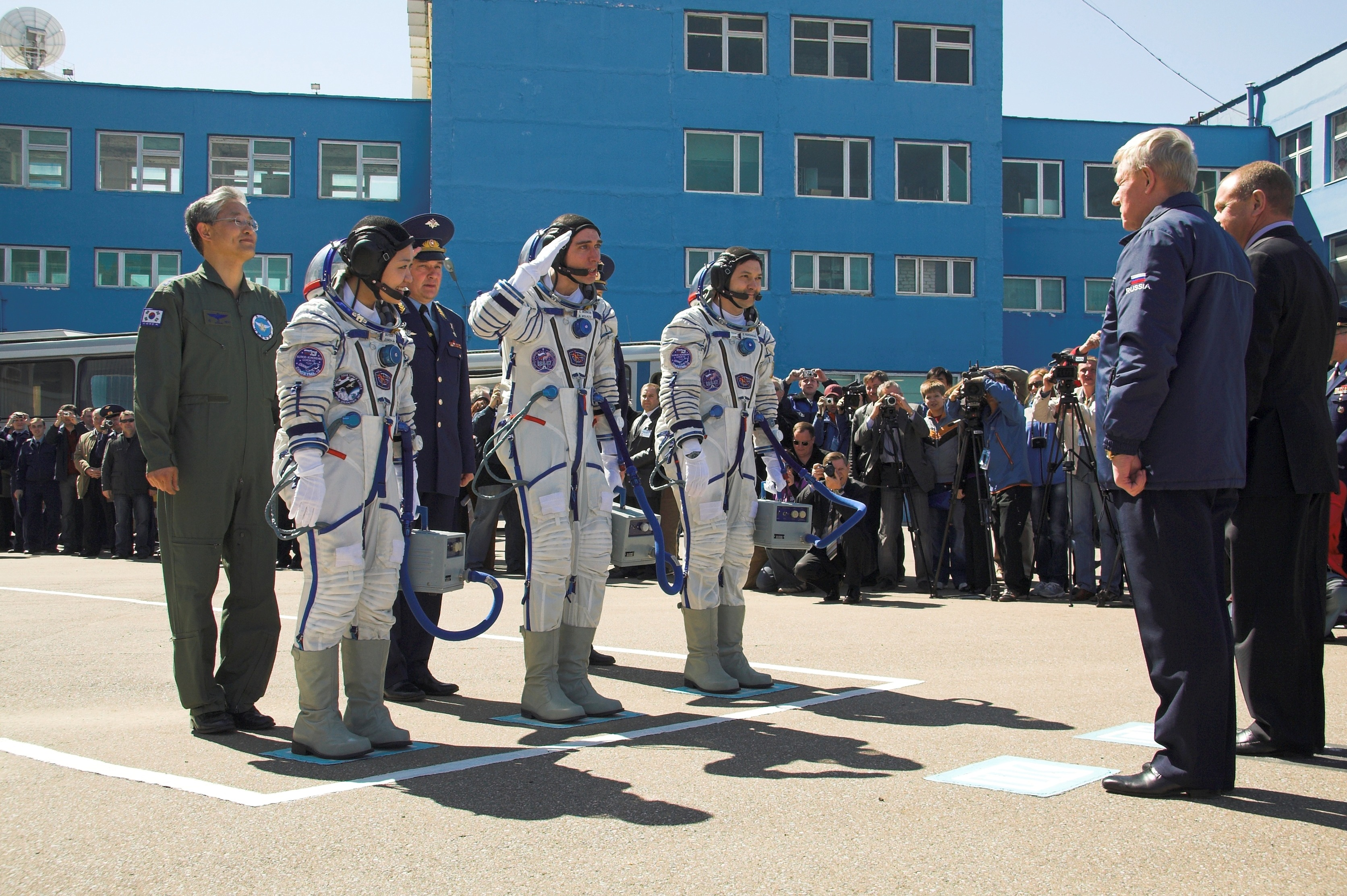 JSC2008-E-032794 (8 April 2008) --- At the Baikonur Cosmodrome in Kazakhstan, Expedition 17 Commander Sergei Volkov (center), Flight Engineer Oleg Kononenko (right) and South Korean spaceflight participant So-yeon Yi bid farewell to Anatoly Perminov, the head of the Russian Federal Space Agency on April 8, 2008, prior to heading to the launch pad for their liftoff on the Soyuz TMA-12 spacecraft to the International Space Station. Volkov and Kononenko will spend six months on the station, while Yi will spend nine days on the complex under a commercial agreement between South Korea and the Russian Federal Space Agency. Photo Credit: NASA /Victor Zelentsov